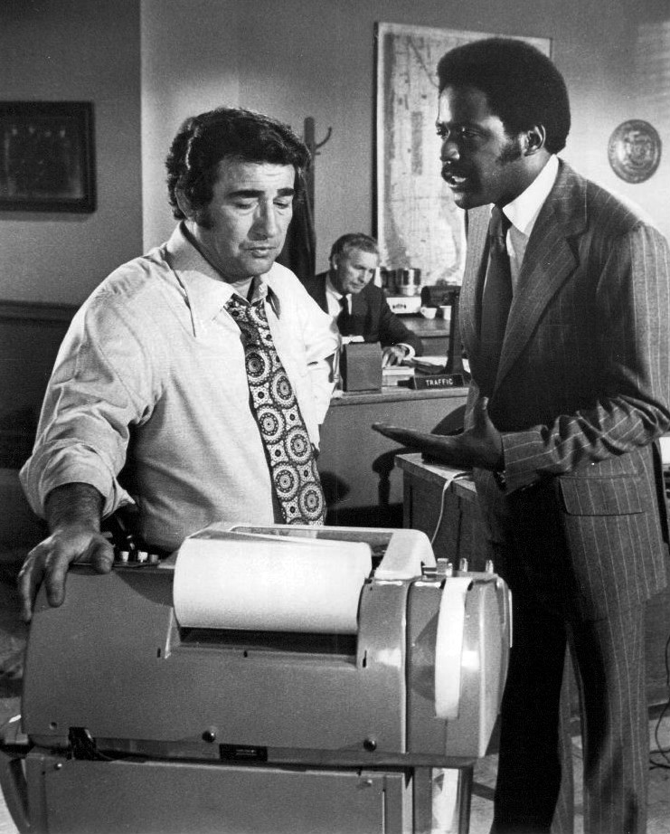 Photo of Richard Roundtree (John Shaft) and Ed Barth (Al Rossi) from the television series Shaft. Roundtree played the John Shaft character in both the movie and this television version, which aired on CBS for less than one year. The photo is from the episode "The Killing" which aired on 30 October 1973.